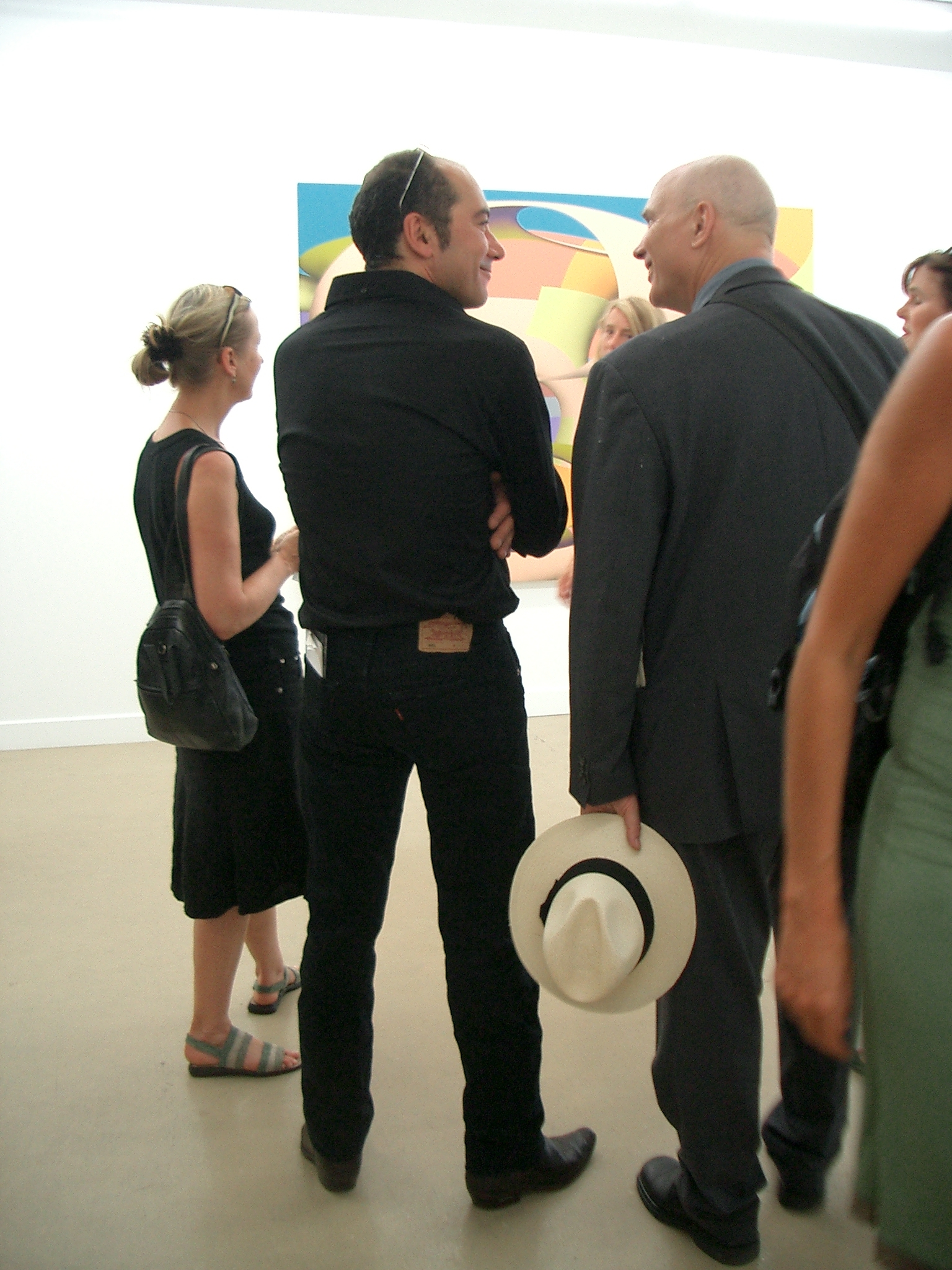 Ab van Hanegem (Dutch painter) at the opening of his show in Gallery Vous etes ici, Amsterdam. 09-04-2004